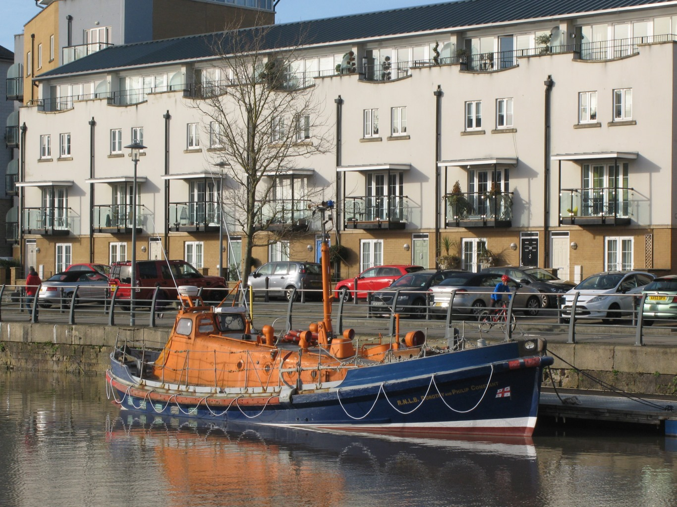 Former Watson Class lifeboat the Dorothy and Philip Constant moored at Portishead on the Bristol Channel.